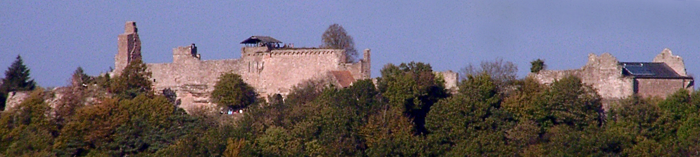 ruins of castle Madenburg near Eschbach, Germany, view from Heidenschuh